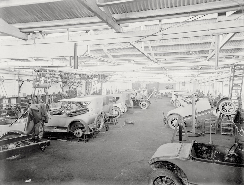 Interior of an automotive factory [repair shop], about 1925, operated by Duncan and Fraser Company. Featured are cars of 1920s design in various stages of assembly and long-span timber-and-truss-rod roof beams. Duncan and Fraser were Adelaide Ford and Studebaker and Standard dealers. They collapsed in 1927.